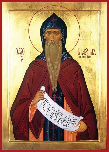 St. Maximus_the_Confessor (ortodox icon)